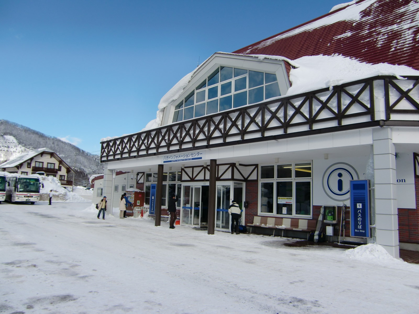 Happo information in Happo. Hakuba village, Nagano, Japan